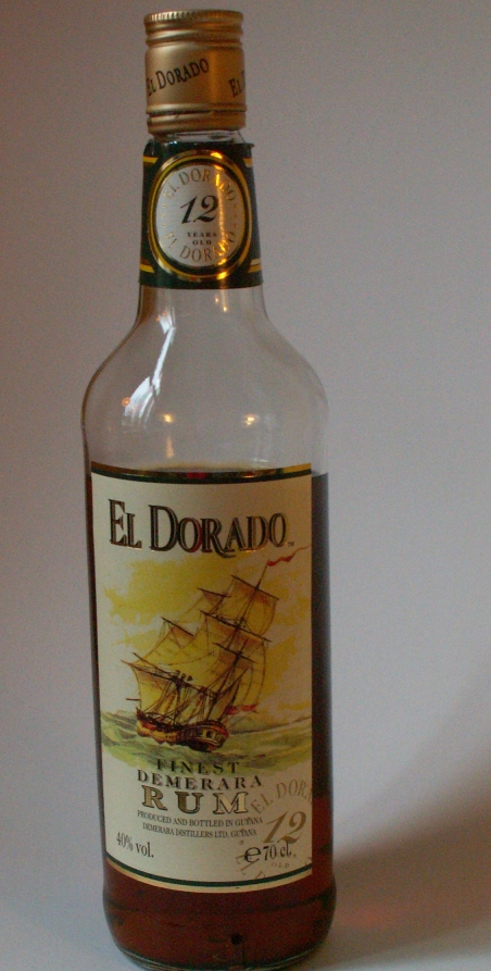 Own picture. Bottle of El Dorado 12 yr rum.